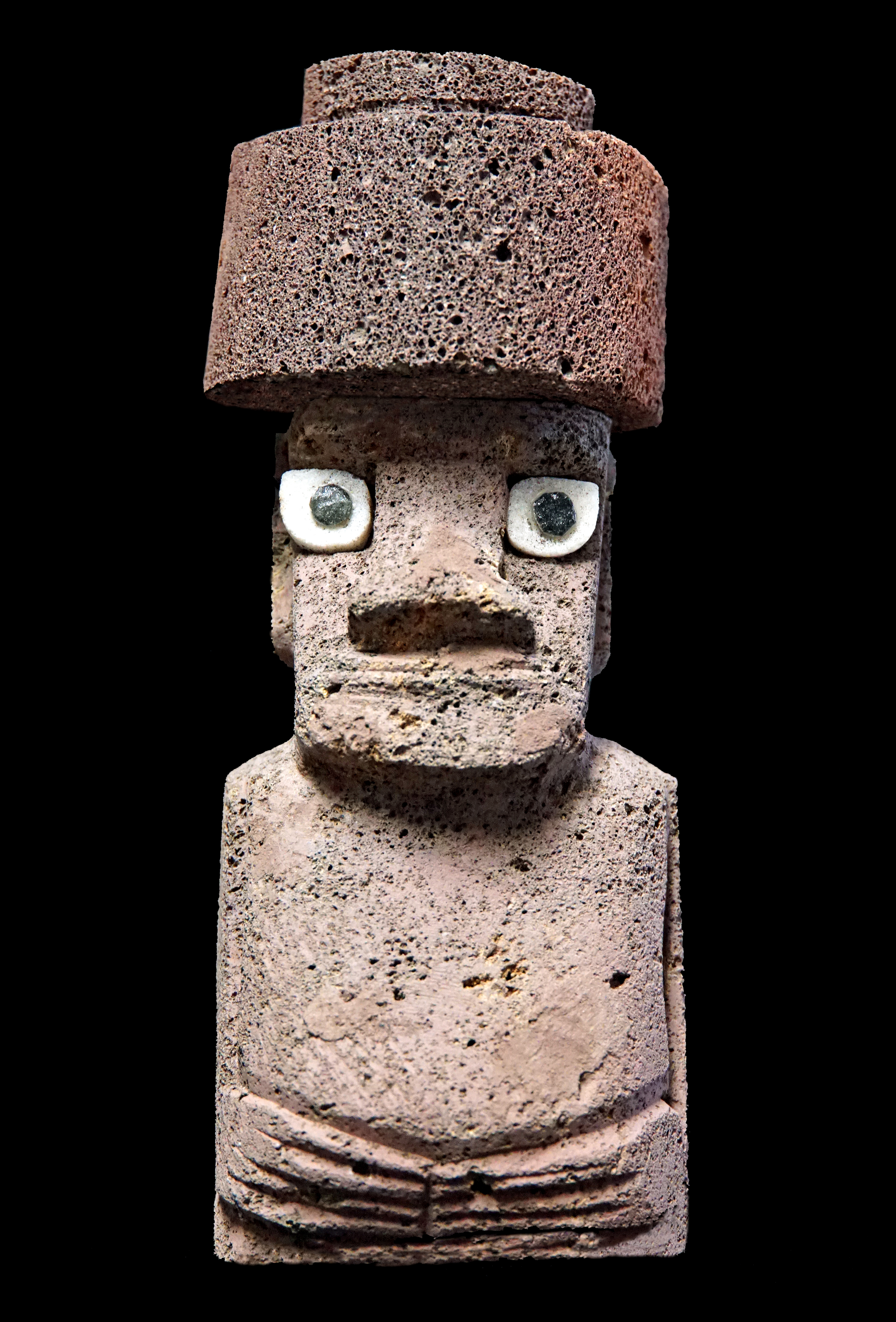 PLEASE, NO invitations or self promotions, THEY WILL BE DELETED. My photos are FREE to use, just give me credit and it would be nice if you let me know, thanks. Bought this at the Artisanal Market. I wanted a souvenir from Easter Island, they have many moai made of plastic, wood etc. but I wanted one made from lava. Not big, approx, 6 inches tall.